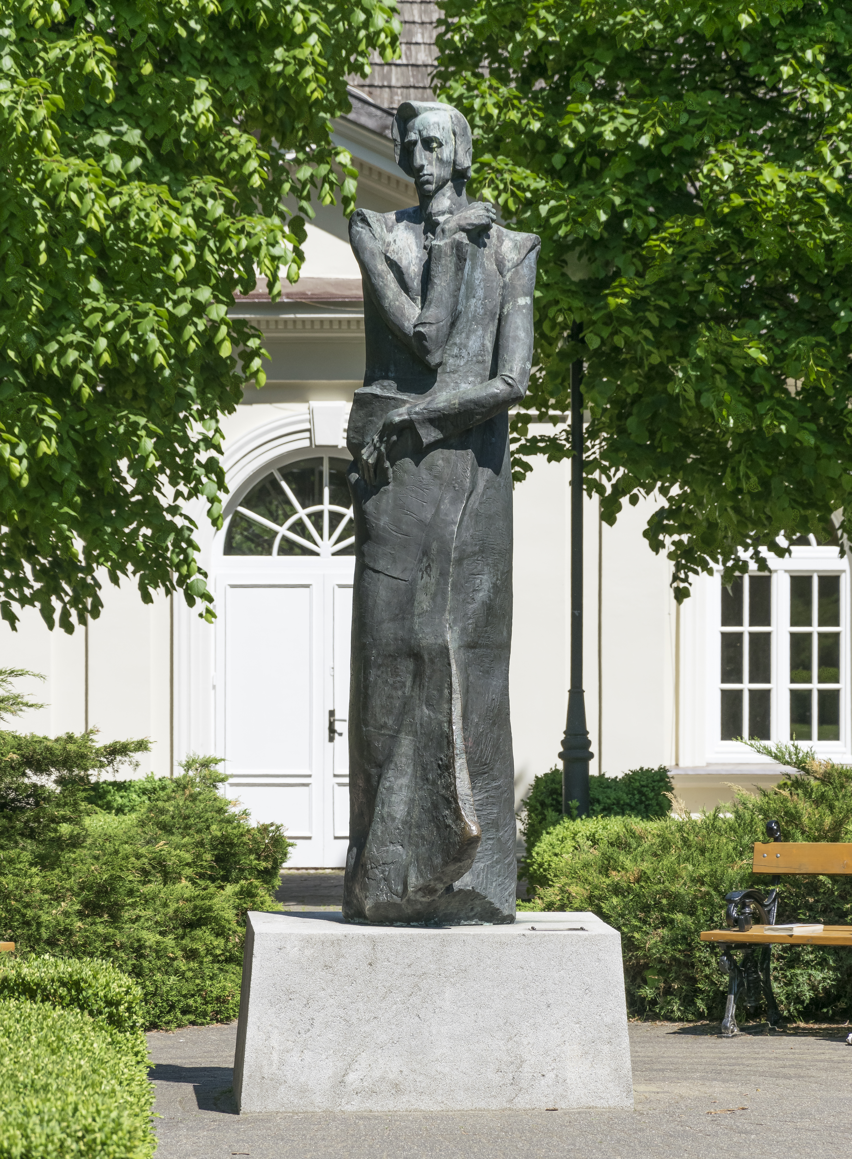 Statue of Fryderyk Chopin in Duszniki-Zdrój